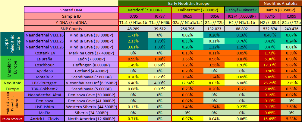 Comparison of the T1a1 from Karsdorf with other Early Neolithic groups.